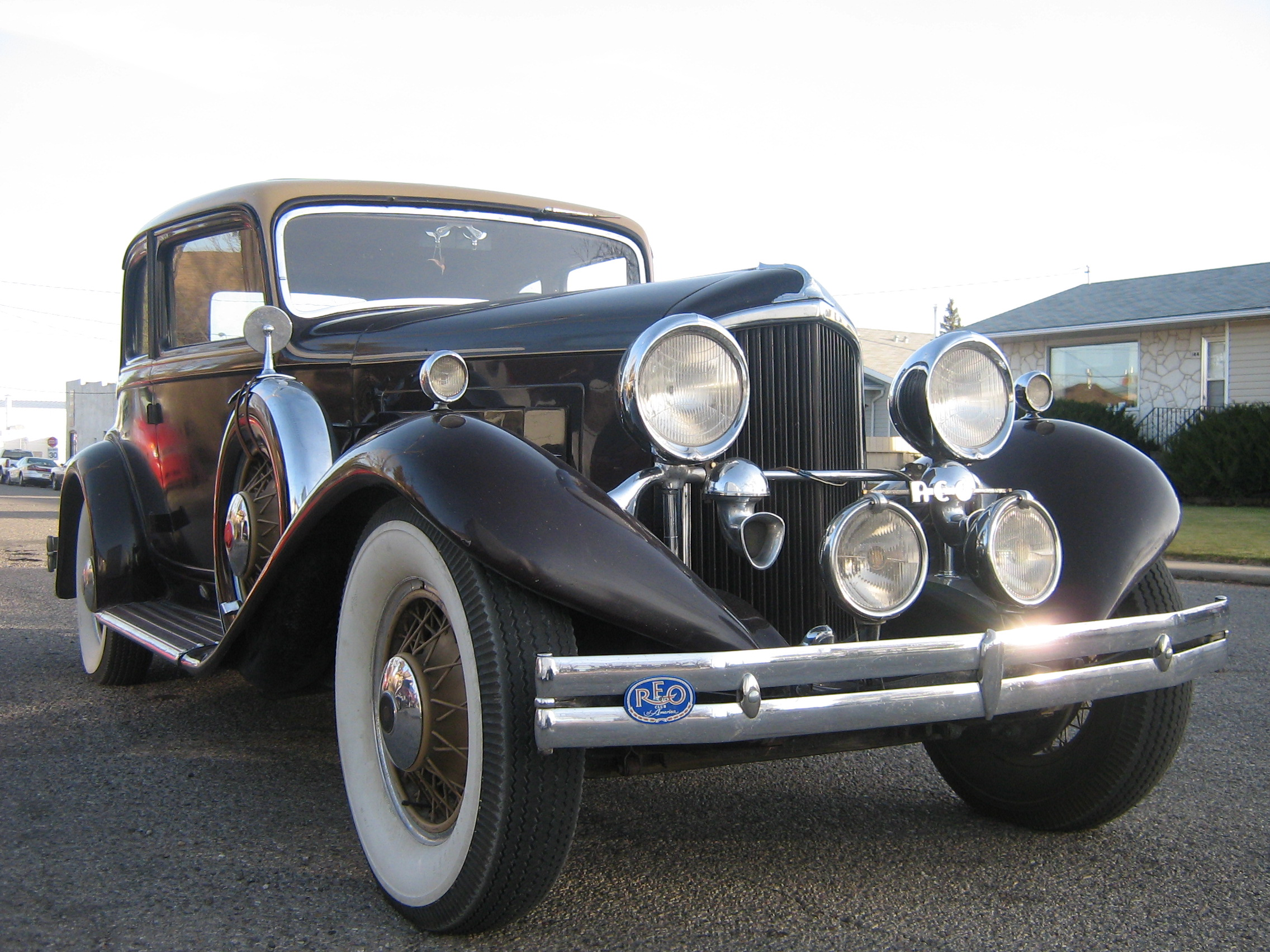 1931 Reo Royale Victoria Eight